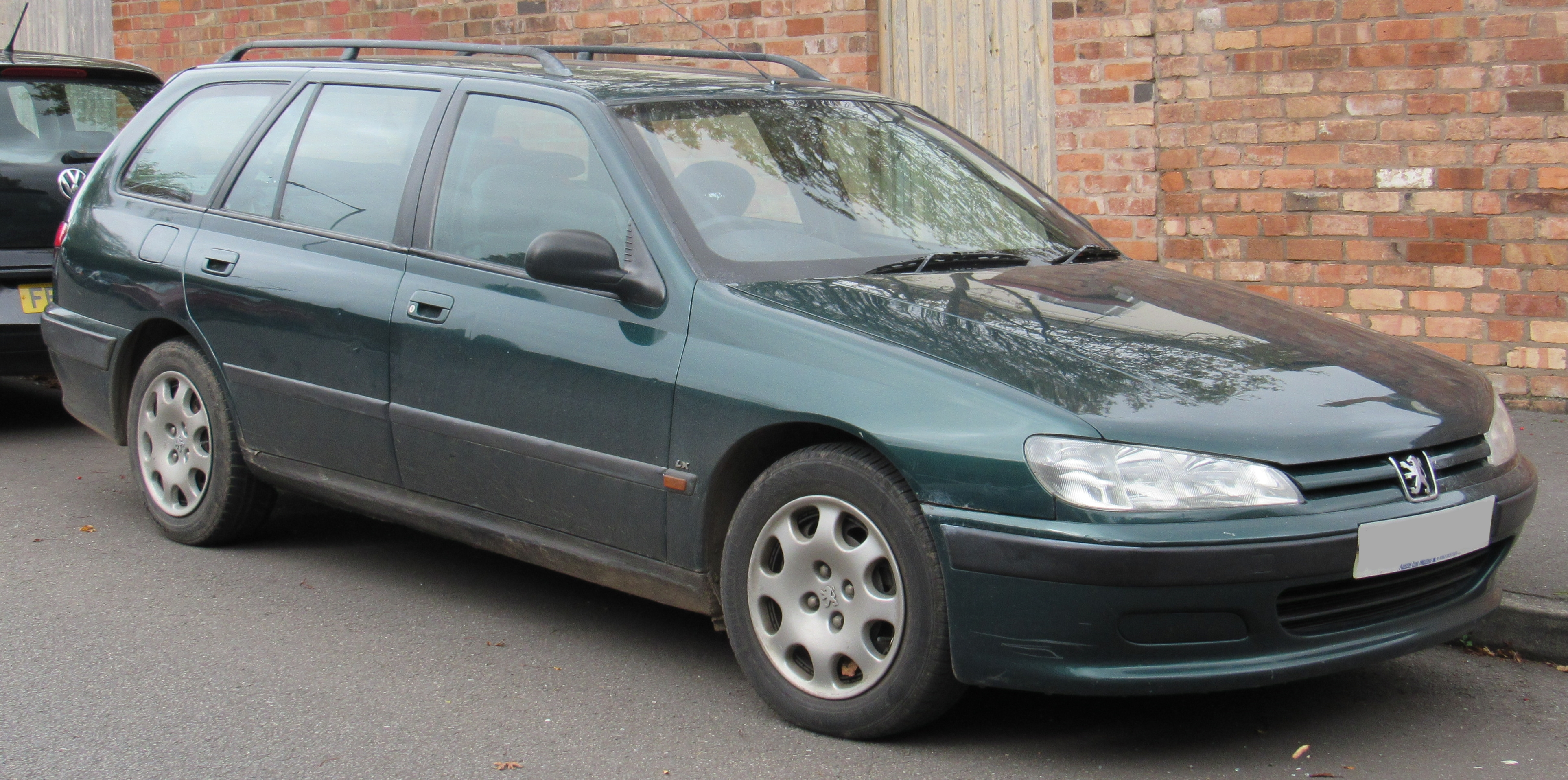 1998 Peugeot 406 LX DT Break 1.9 Front Taken in Leamington Spa